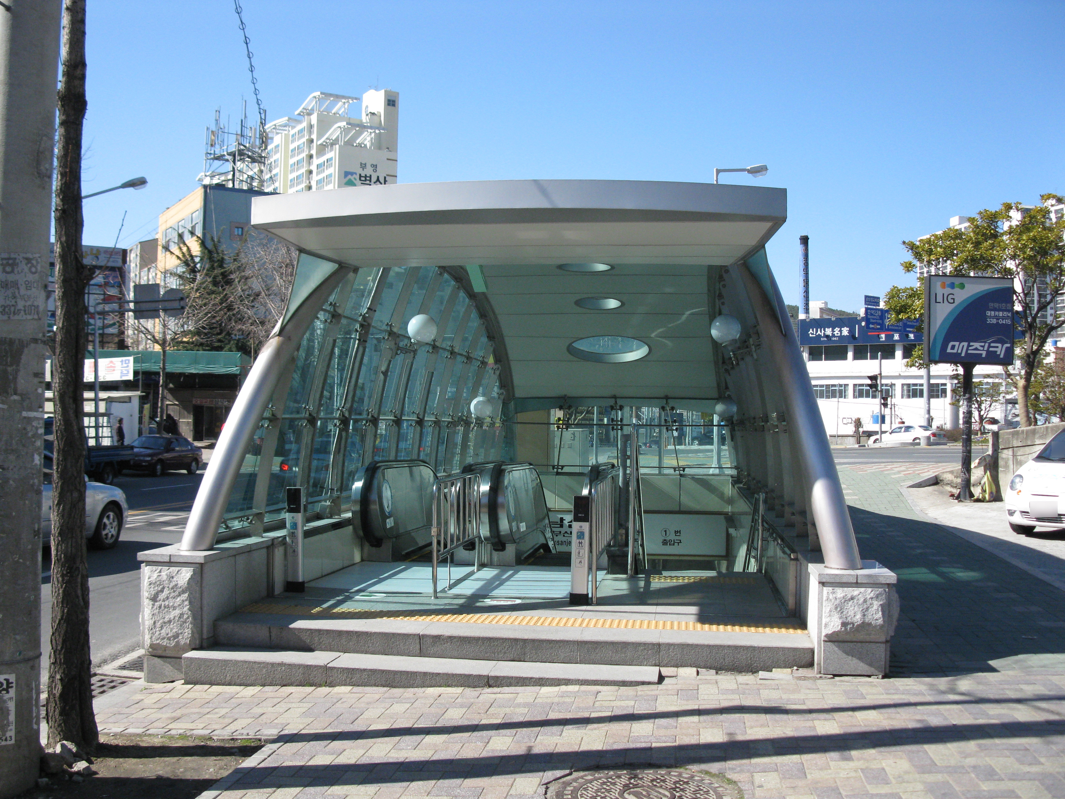 Namsanjeong Station no.1 entrance (Busan Subway Line 3)